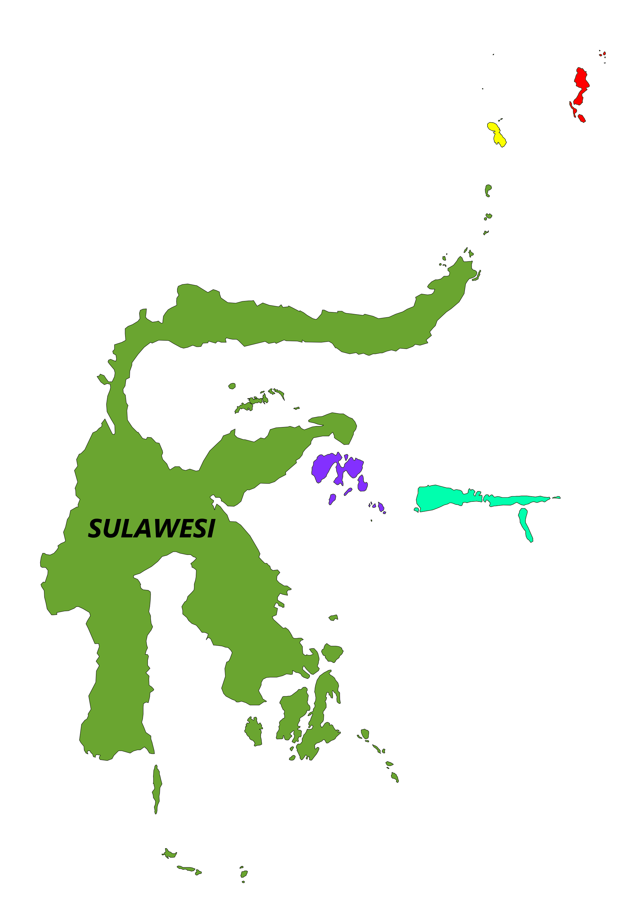 Biogeography of SulawesiBahasa Indonesia: Biogeografi Sulawesi